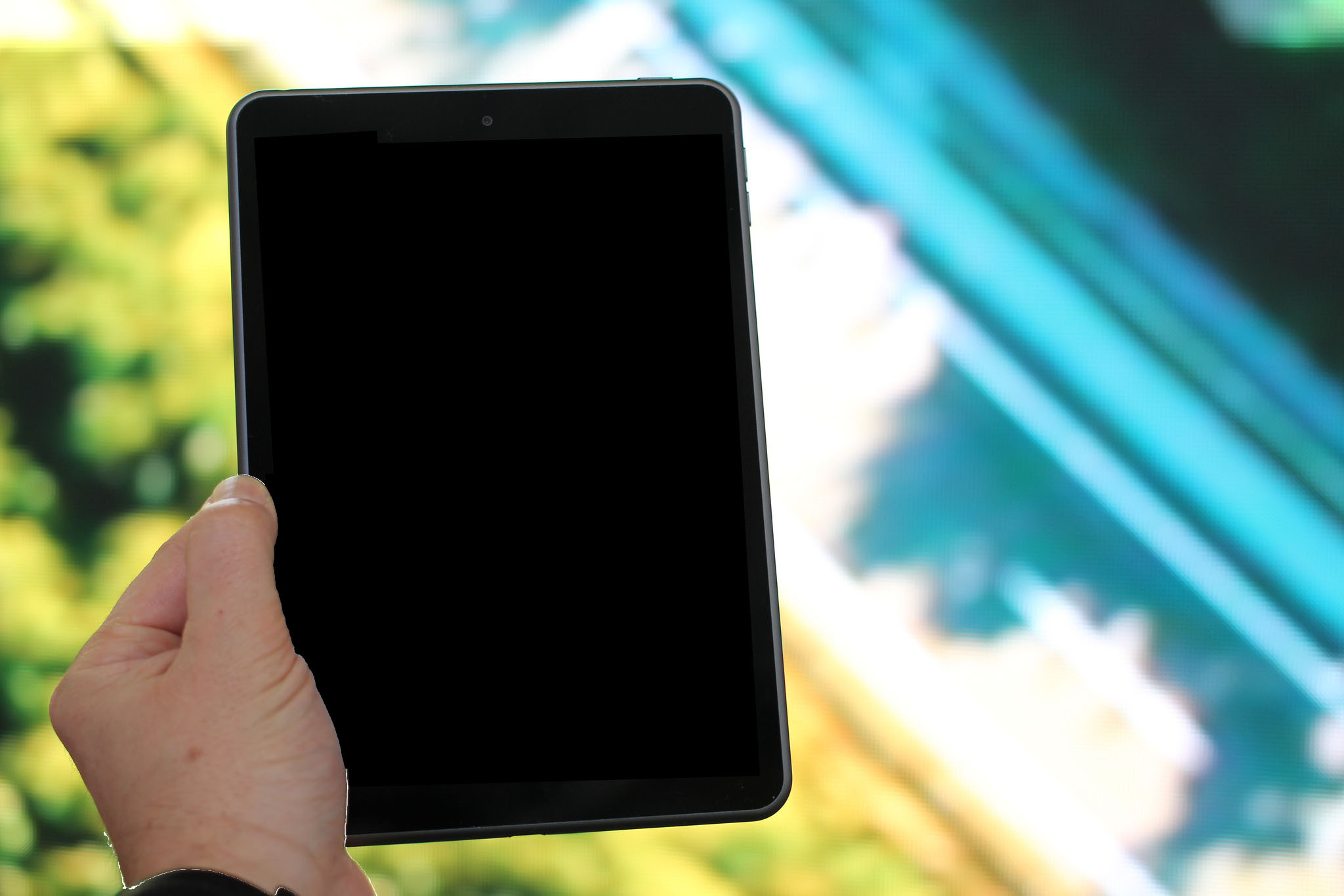 the front of the Nokia N1 tablet with copyrighted background removed.